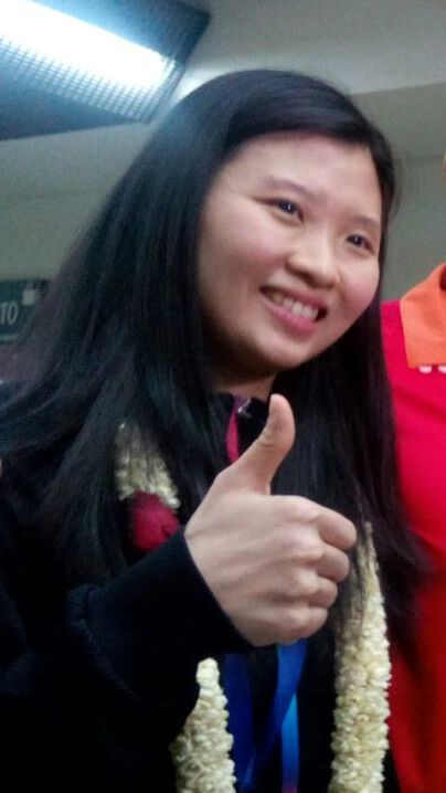 Debby Susanto, Richard Mainaky, Praveen Jordan during the welcoming ceremony after winning 2016 All England